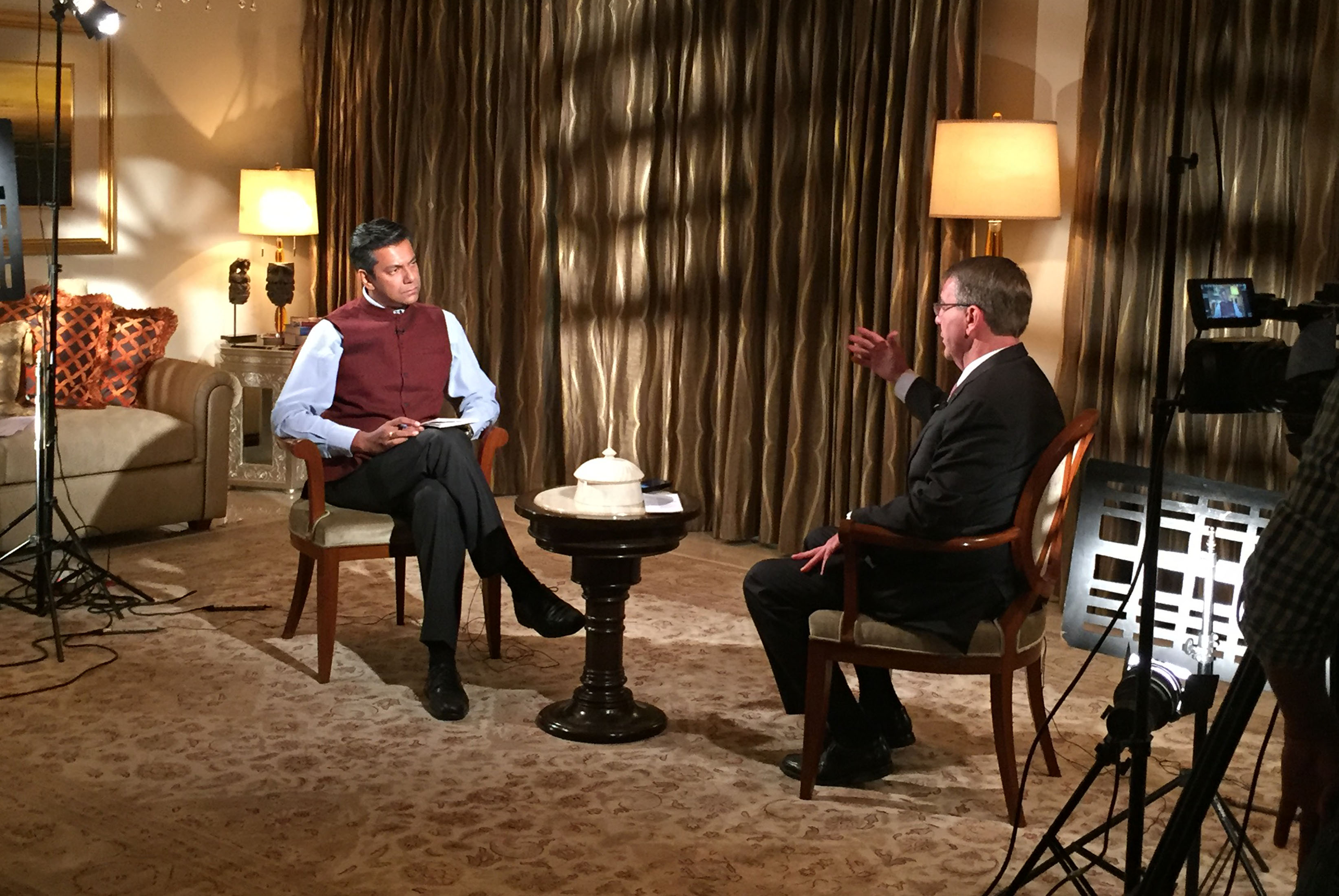 Secretary of Defense Ash Carter is interviewed by Vishnu Som of NDTV in New Dehli, India, April 12, 2016. Carter is visiting India to solidify the rebalance to the Asia-Pacific region.(Photo by Senior Master Sgt. Adrian Cadiz)(Released)